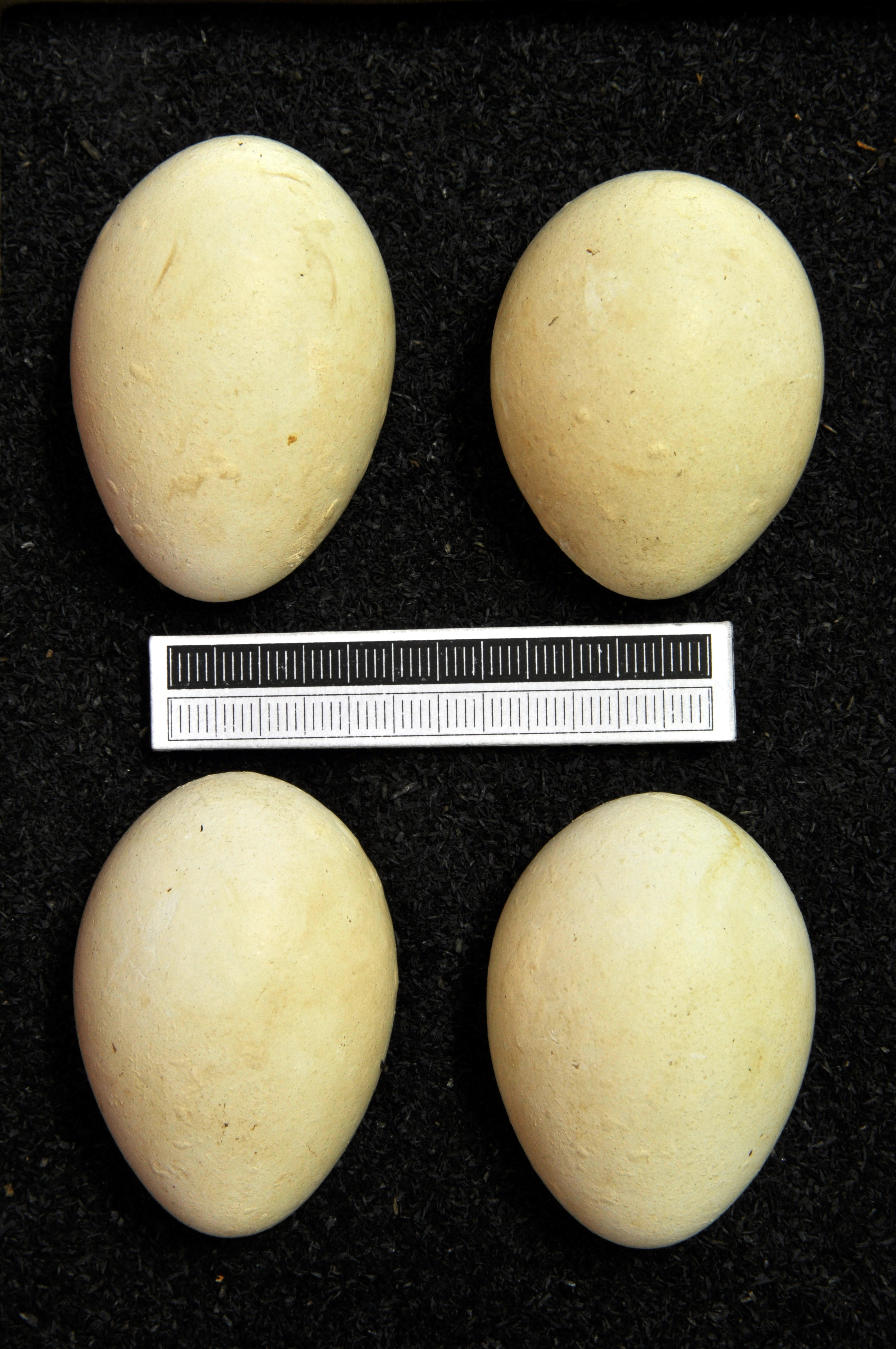 Great crested grebe Podiceps cristatus , egg, Coll. Museum Wiesbaden